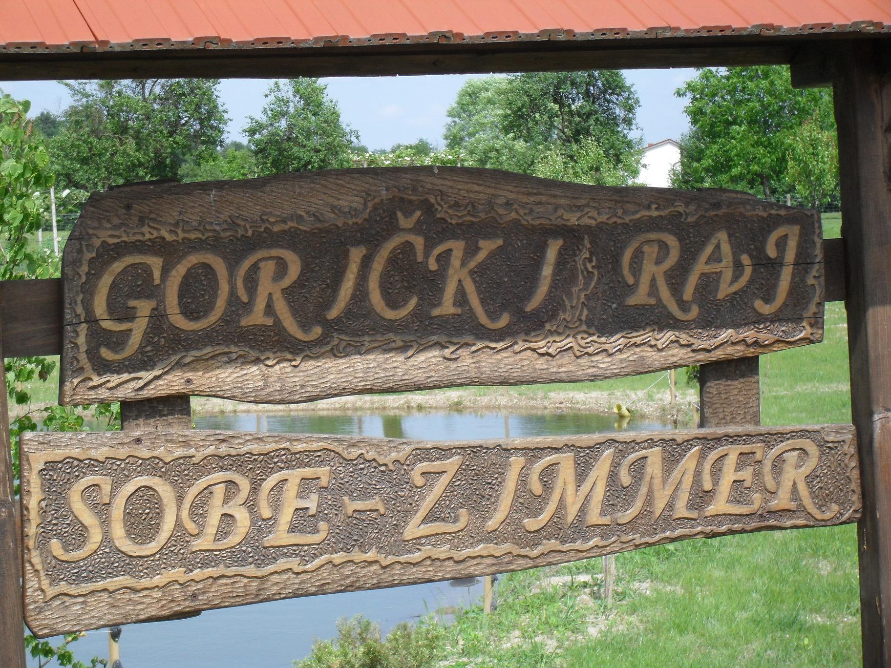 The commercial of the Gorički raj room for rent in Peskovci. The Gorički raj in prekmurian (prekmurščina): Goričko/Highlandic sky